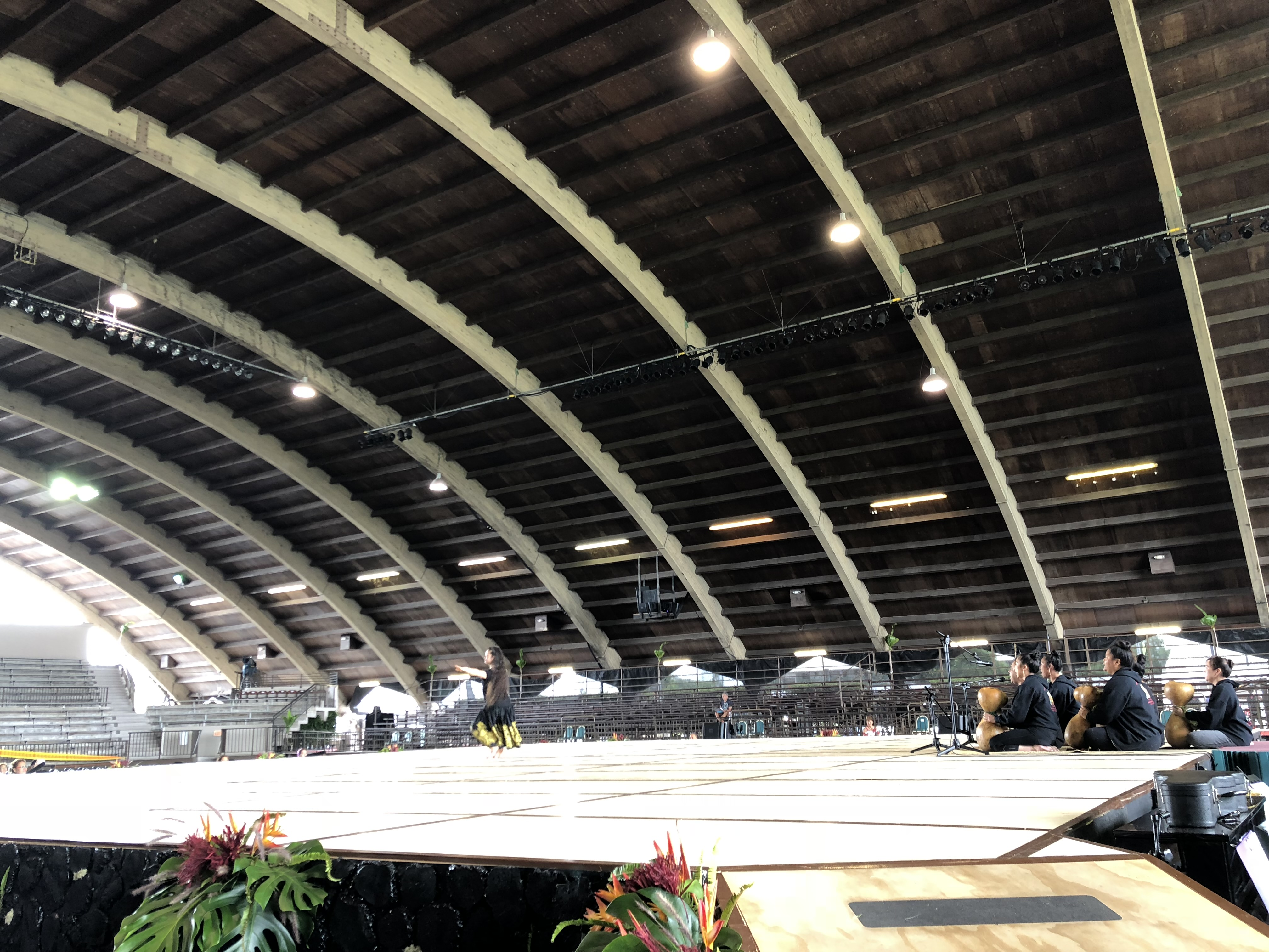 Merrie Monarch Stage Practice 2019